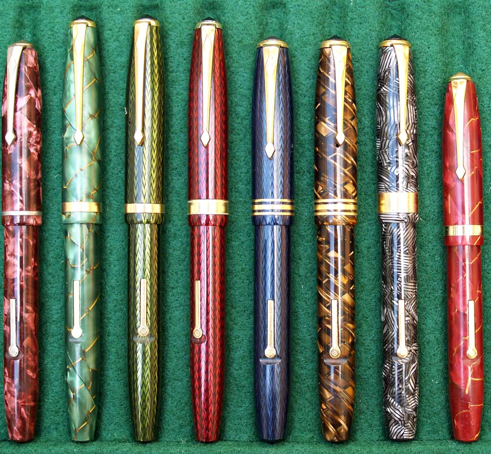 A selection of Conway Stewart fountain pens from the 1950's.